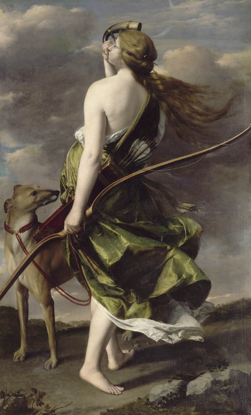 A depiction of Diana, the goddess of the hunt and the moon in Roman mythology.